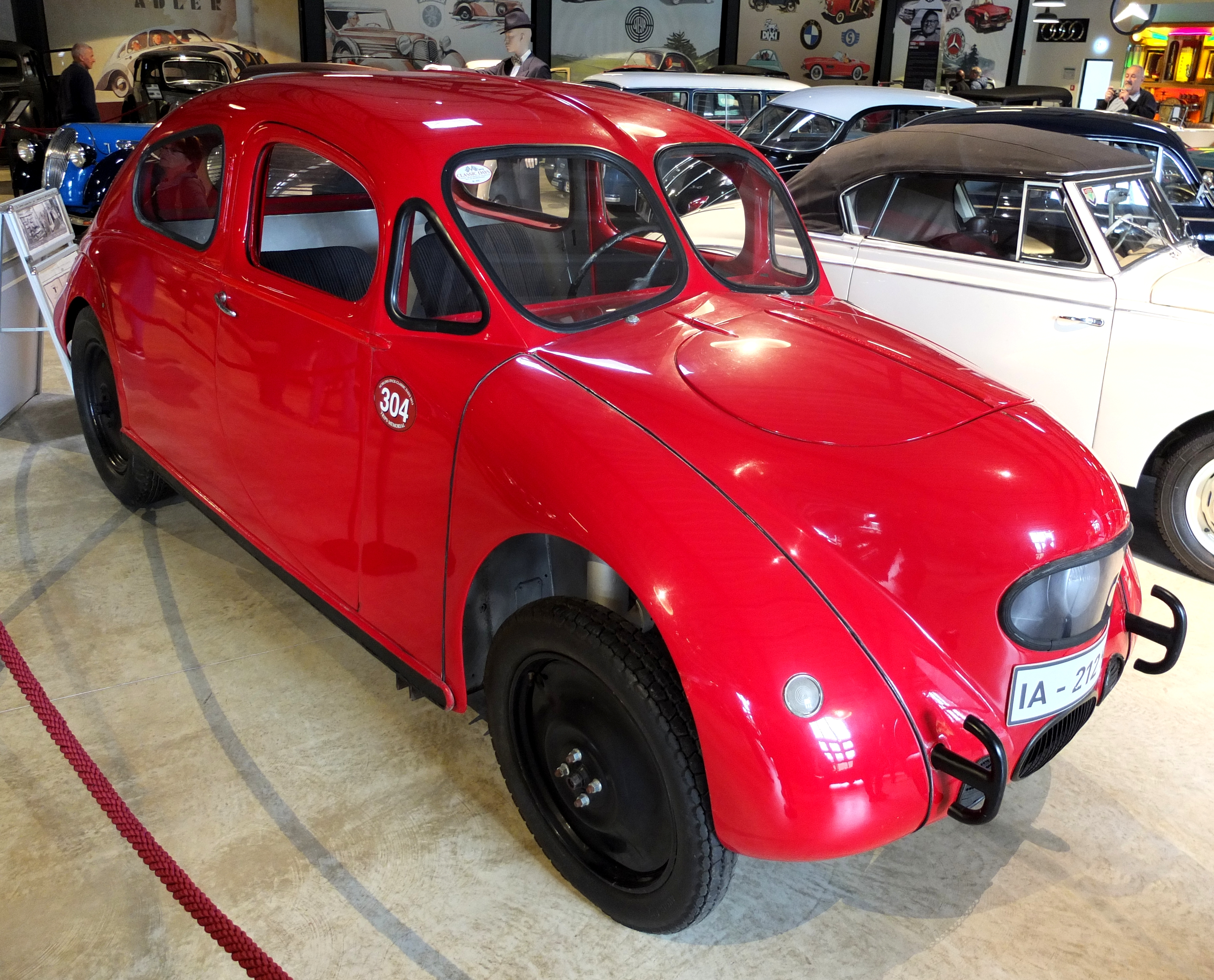 Very rare car of the former German brand "Leichtbau Maier" (1934-1935), model 0501/35, in Zylinderhaus Bernkastel-Kues